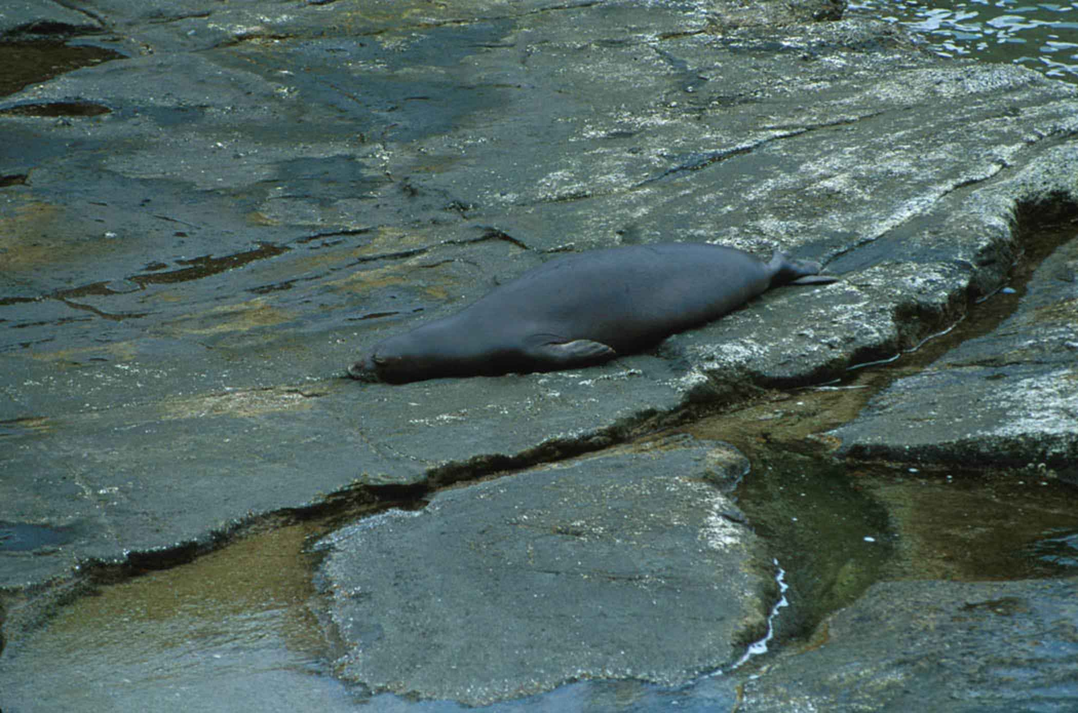 Image title: Hawaiian monk seal phocidae monachus schauinslandi Image from Public domain images website